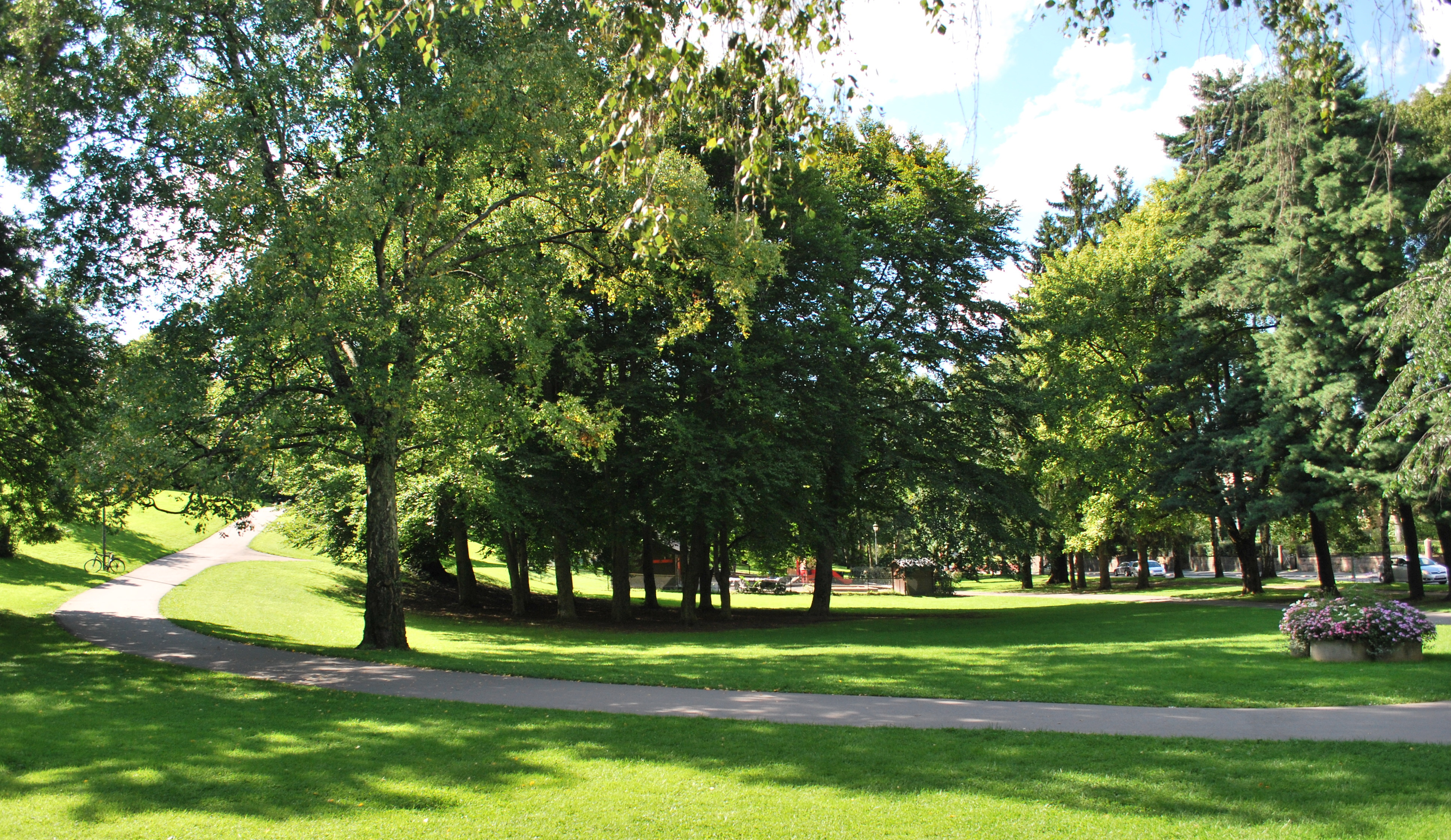 St. Hanshaugen park, Oslo, north part